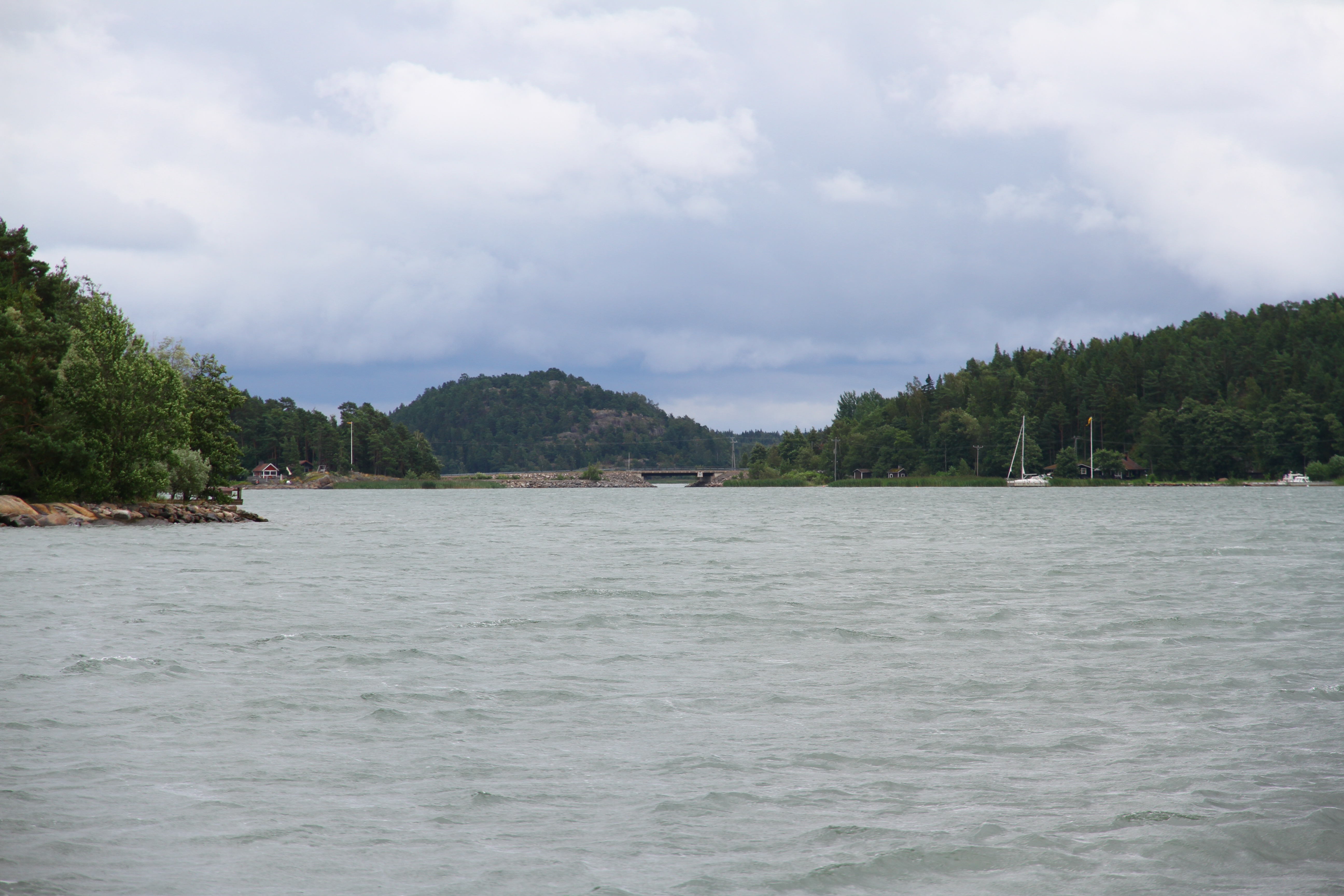 Röölä Naantali, Finland.